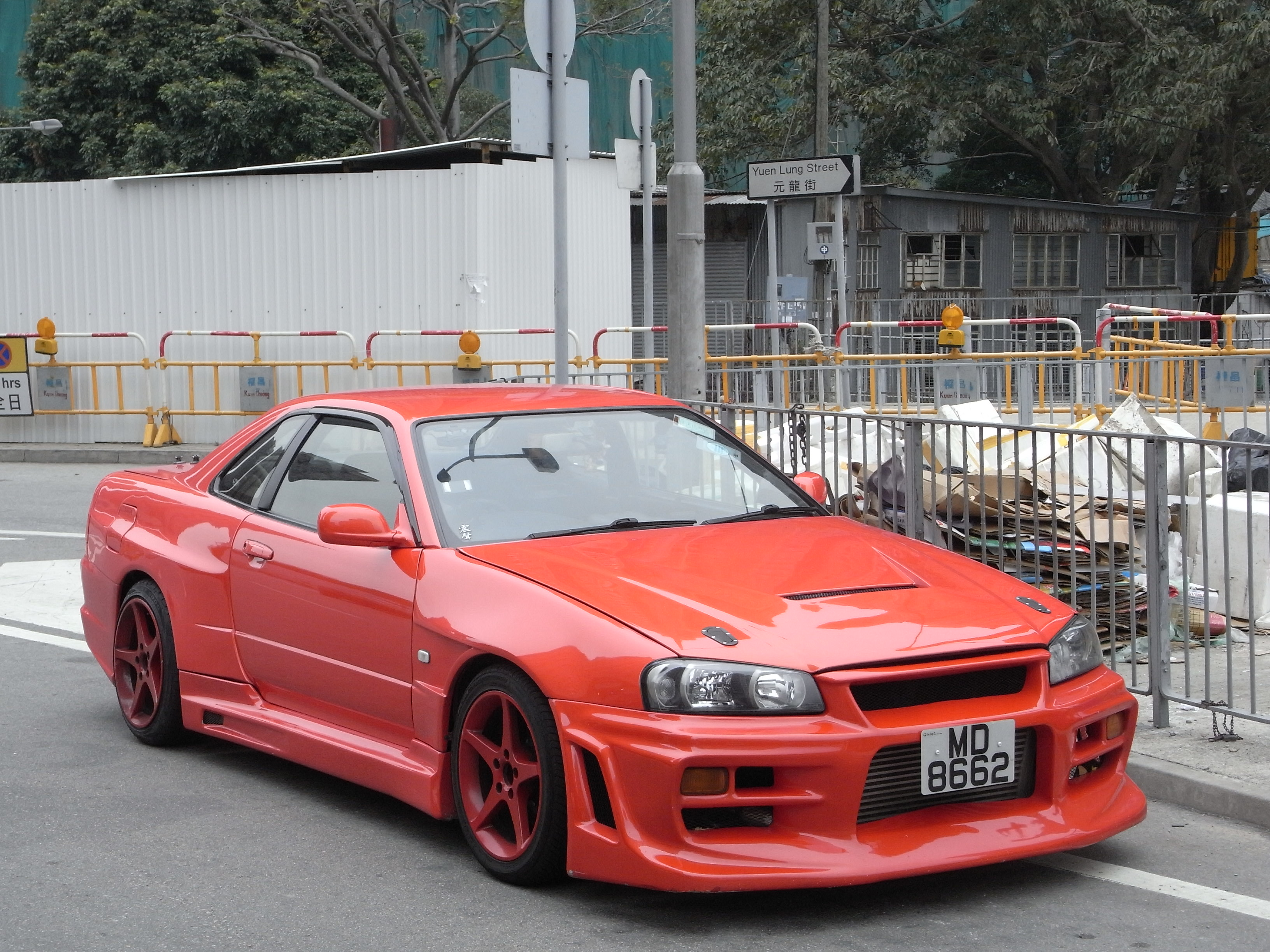 元朗